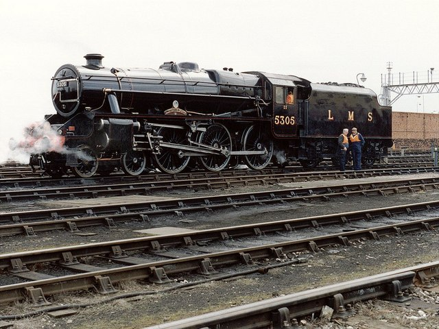 Railway Depot, Longsight